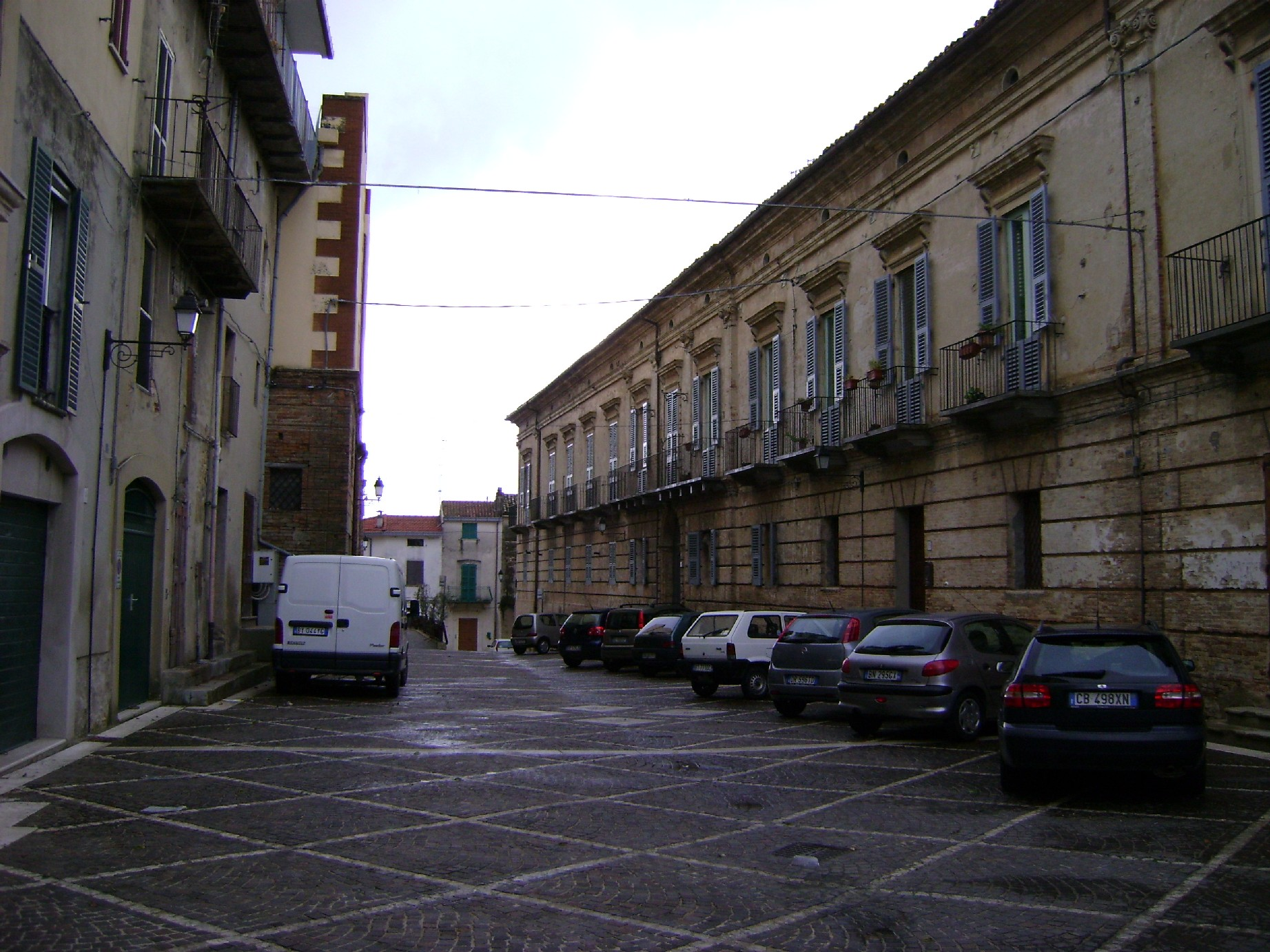 Castel Frentano, province of Chieti, Giuliano Crognale square.